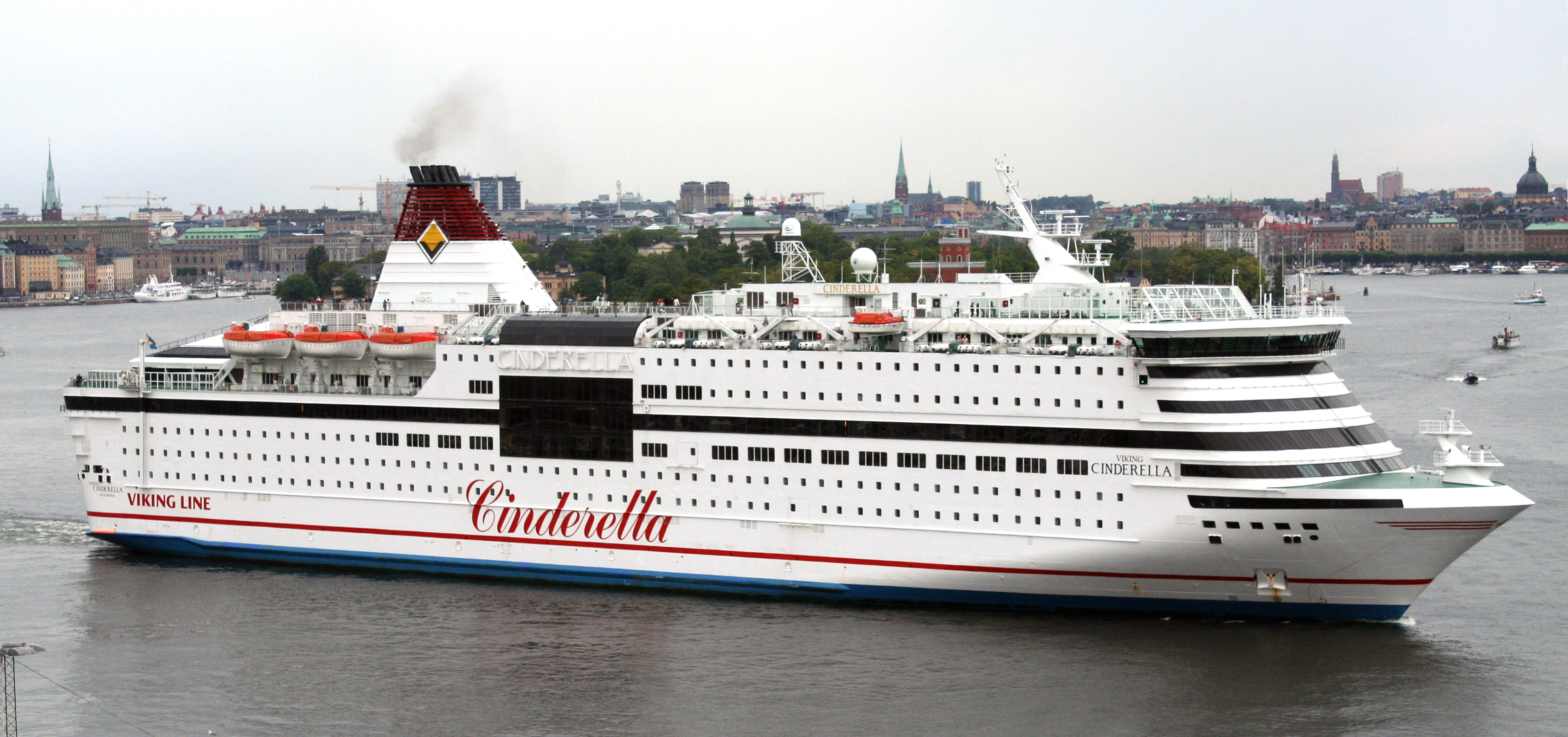 Viking Line cruiseferry MS Viking Cinderella departing Stockholm.